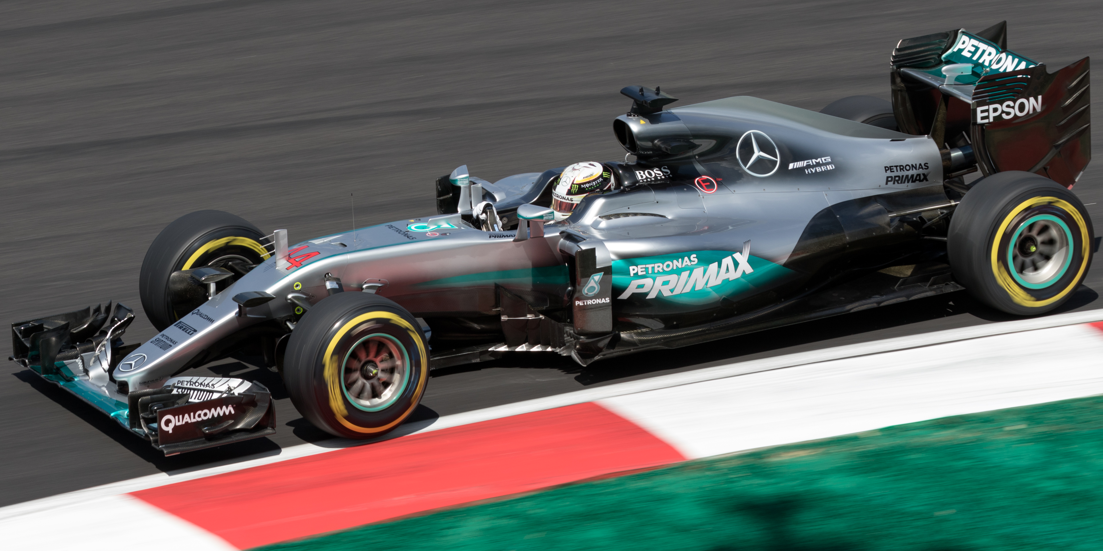 Formula One 2016 Rd.16 Malaysian GP: Lewis Hamilton (Mercedes)